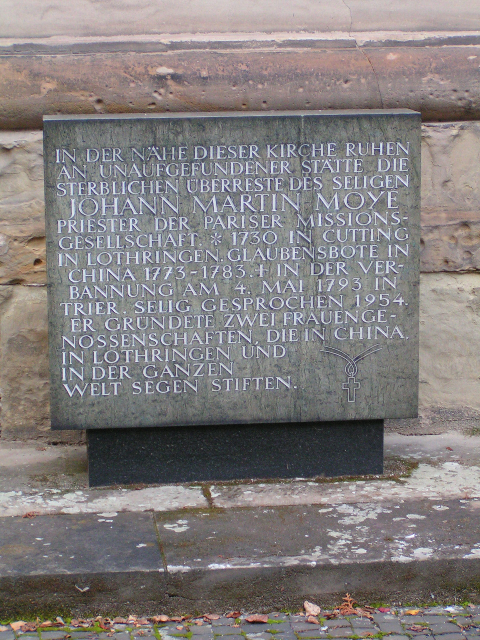 Jesuitenkirche, Trier, Germany